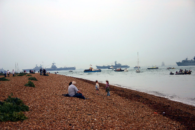 Alverstoke, Stokes Bay. Near Gosport Hampshire